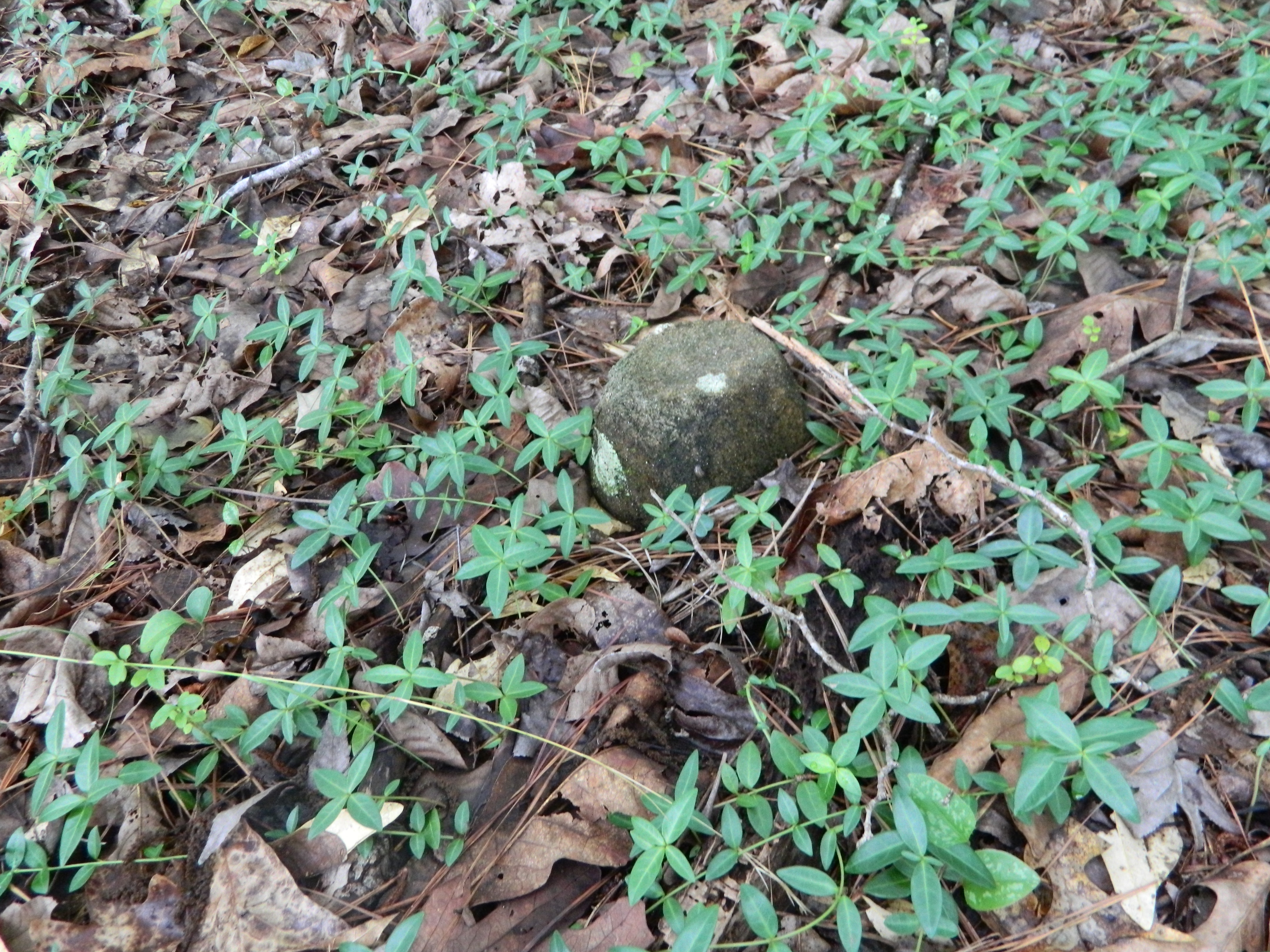 Unidentified foot stone of grave located within the Flat Rock Historic Cemetery. Material is local granite rock.